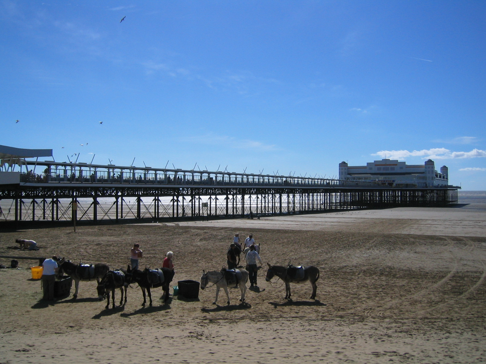 The Grand Pier and beach at low tide, Weston-super-Mare, England. Photo taken by me 2005-08-05.